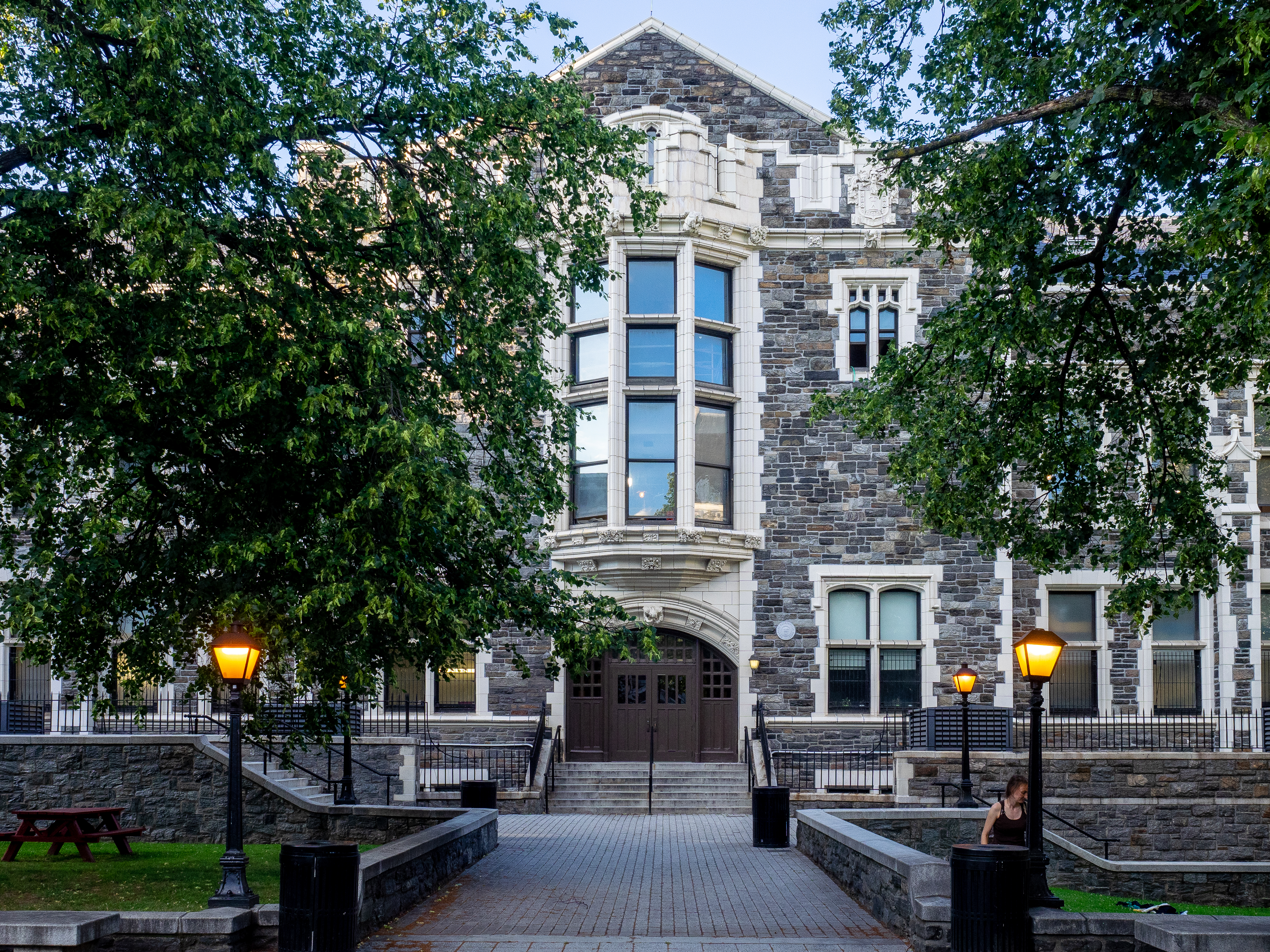 Hamilton Heights, Manhattan, NYC